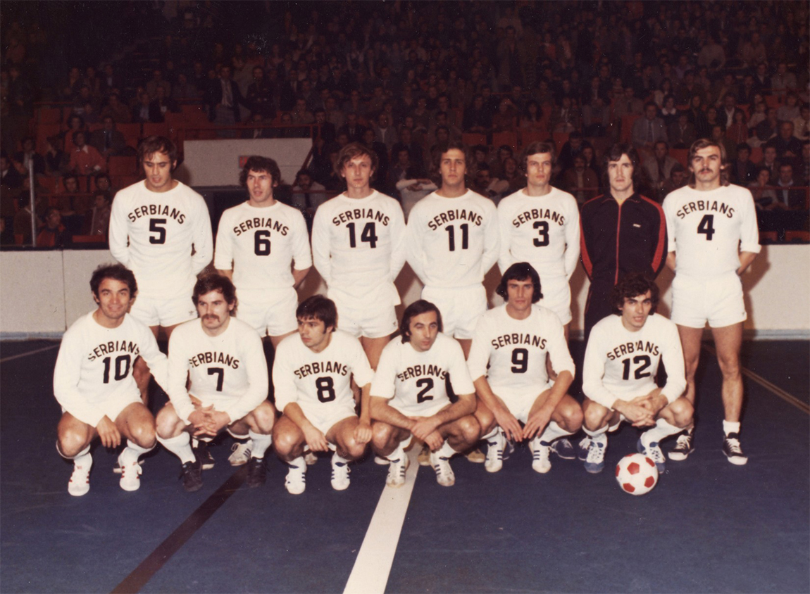 The Serbian White Eagles 1973 team for an indoor soccer tournament held in Toronto that year. Top row, from left to right: Dragan Janković, Deni Denkovski, Laza Erski, Mike Bakić, Cveja Bošnjaković, Blagoje Tamindžić and Pera Stefanović. Bottom row: Dragoslav Šekularac, Milan Miladinović, Trifun Mihailović, Nikola Ivetić, Mike Stojanović and Mike Škorić.